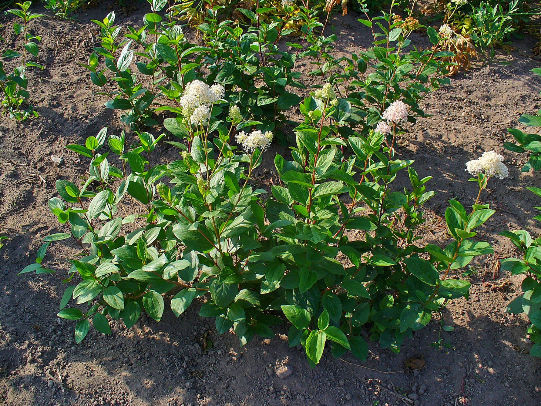 Ceanothus americanus, New Jersey Tea, habitus; Stutensee-Staffort, Germany.